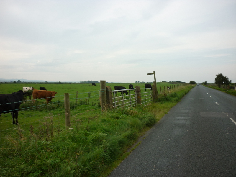 A path leading to Wolsty Farm